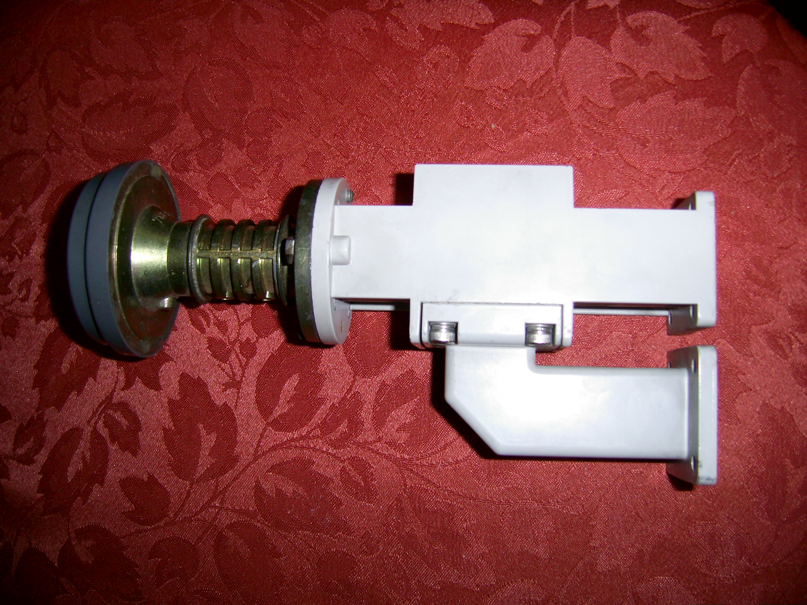 Device to combine two differently-polarized signals.